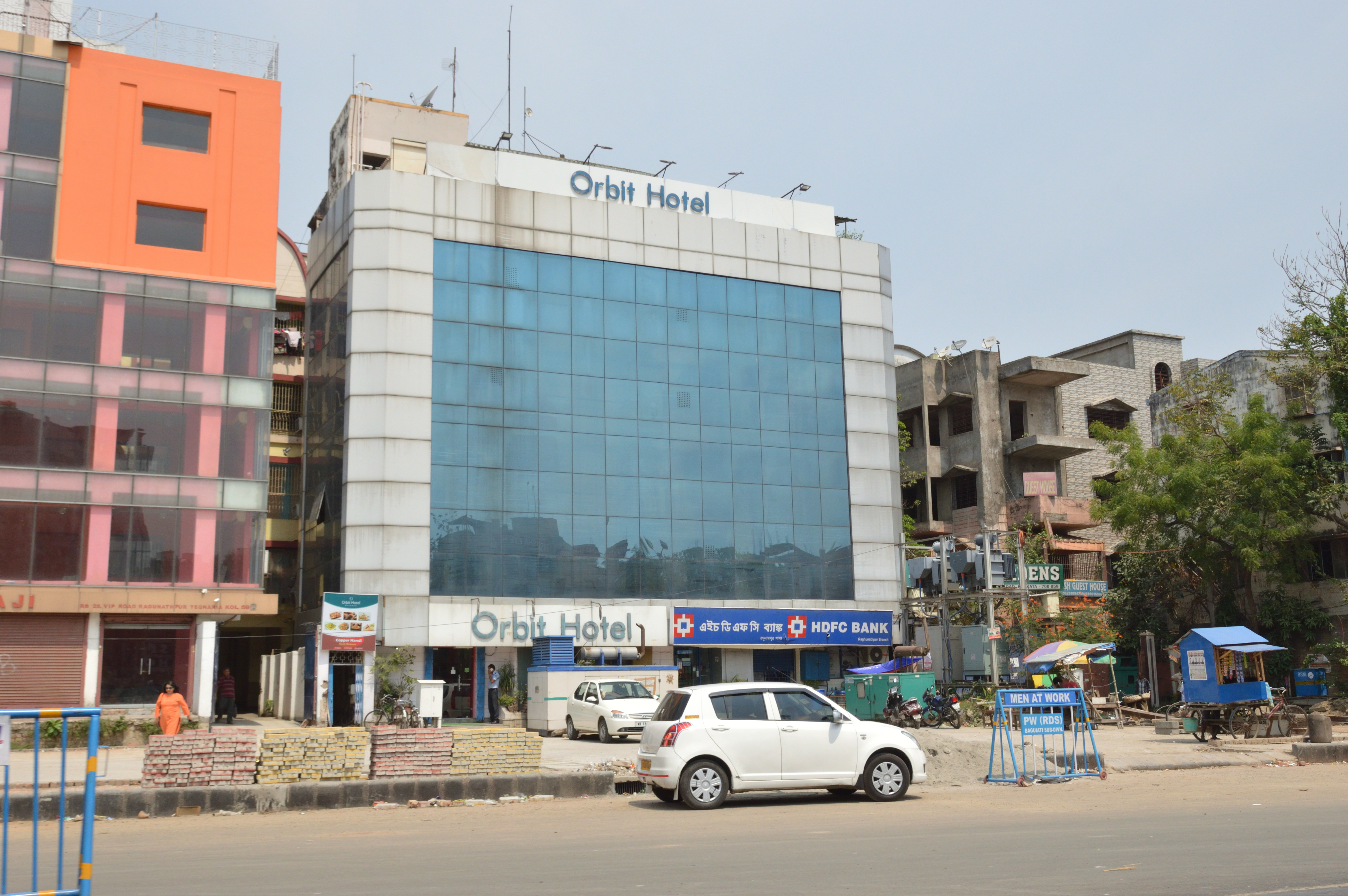 Photographed in Kolkata, West Bengal, India.